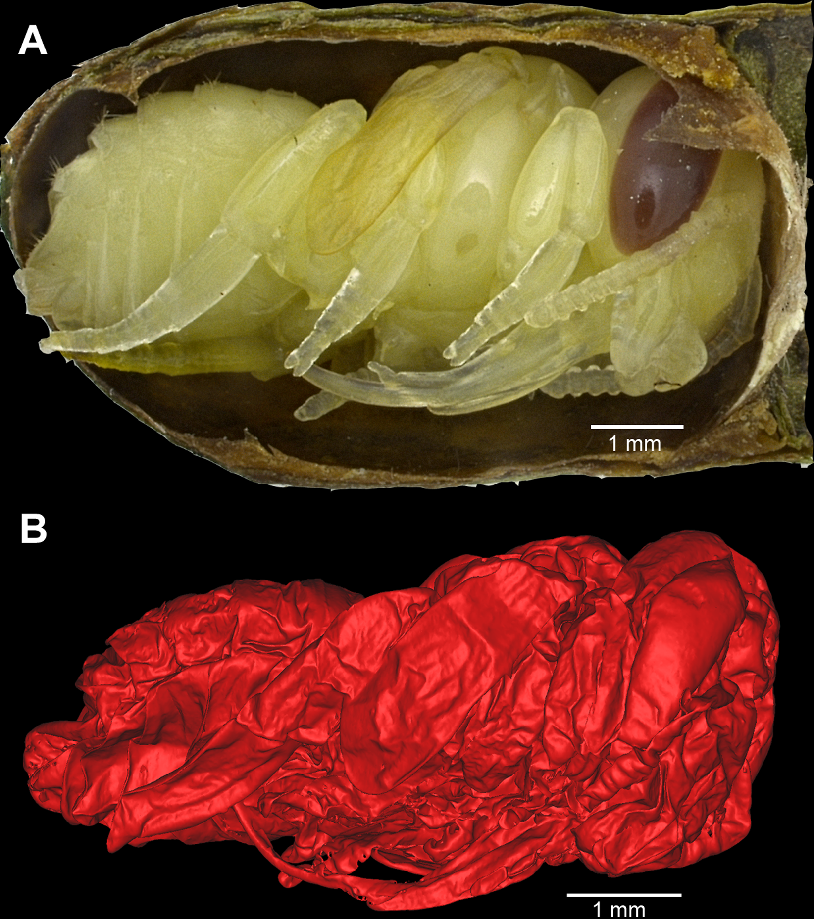 Comparison between (A) a female modern leafcutter bee (Megachile rotundata) and (B) LACMRLP 388E (Megachile gentilis) male and in order to display obvious similarity in general morphology at pupal stage.